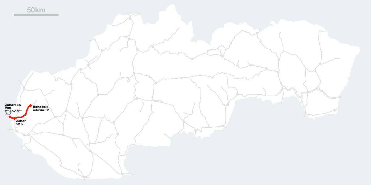 Railway track Bratislavská regionálna koľajová spoločnosť with Japanese language